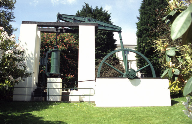 Preserved steam engine, University of Glamorgan. The details are given on this earlier picture 680237 showing it in much poorer condition.